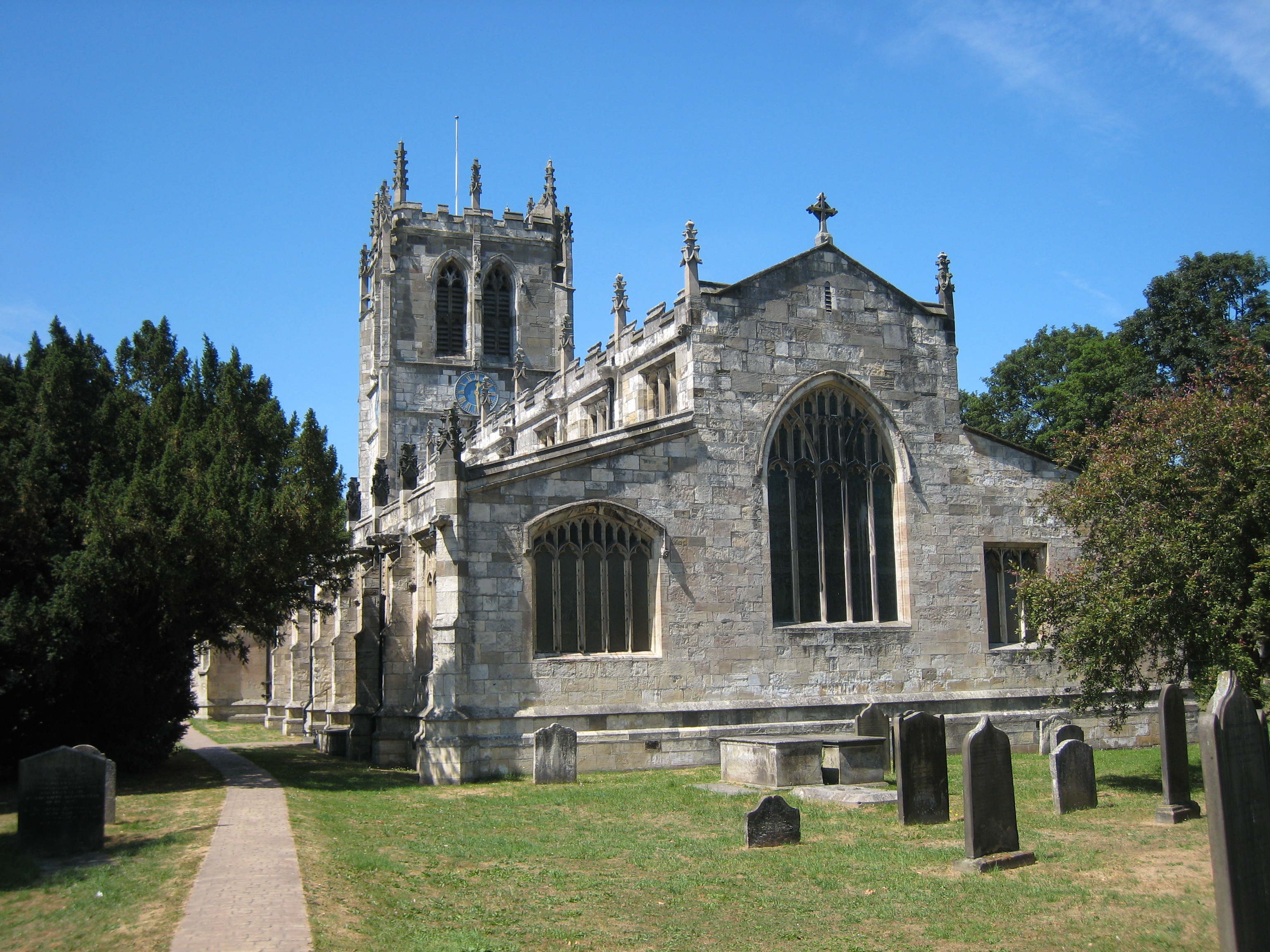 Church of St Mary the Virgin, Tadcaster. East face.